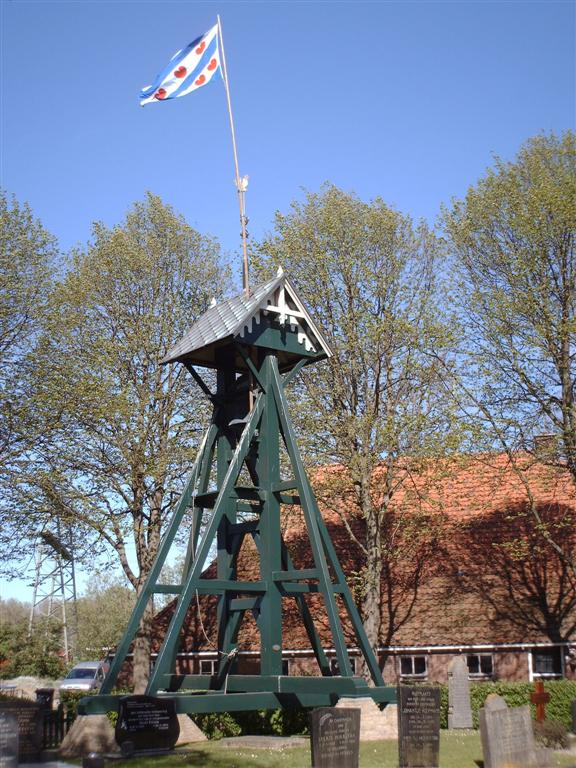 wooden bell tower in Loenga, Friesland, Netherlands